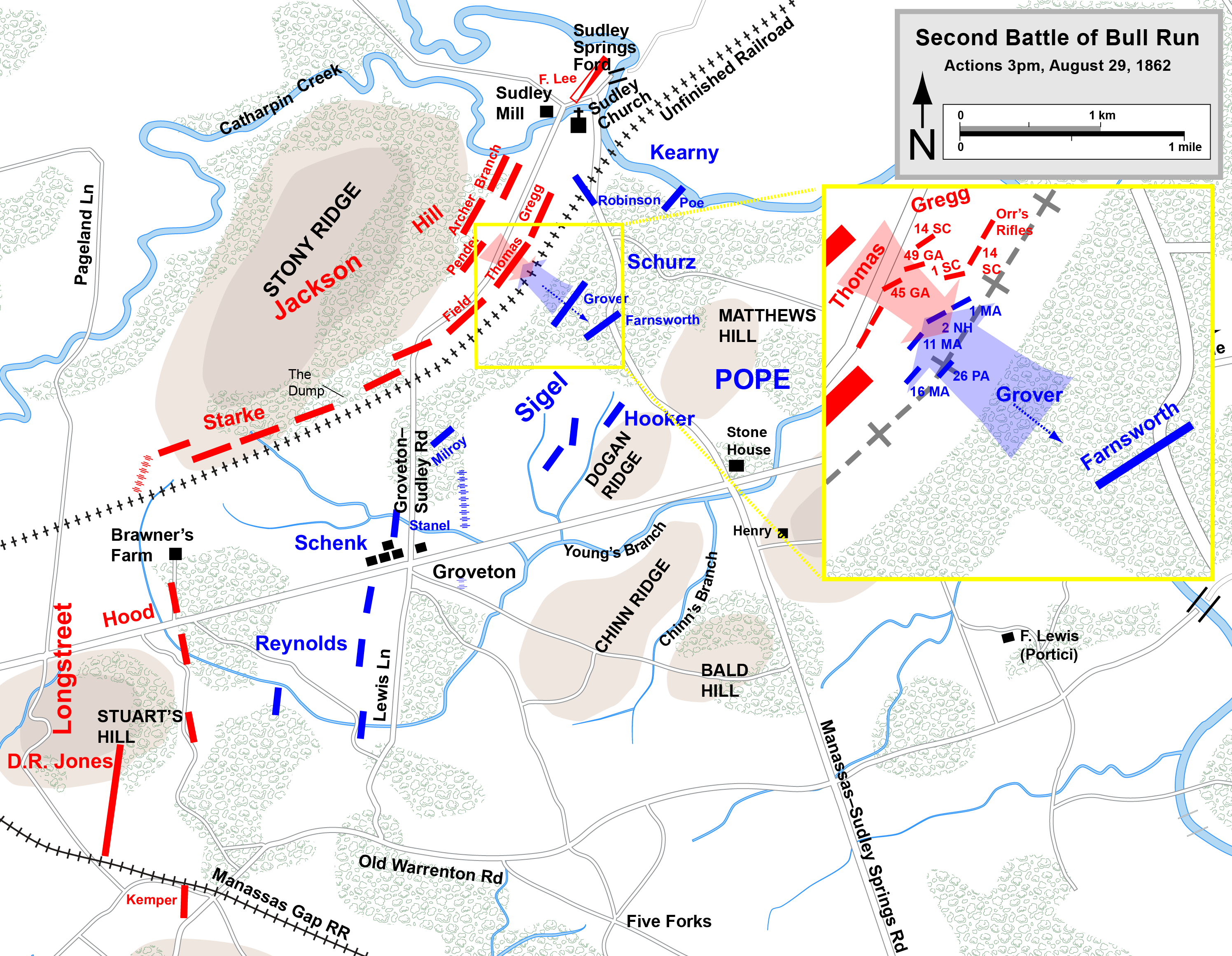 Map of the Second Battle of Bull Run of the American Civil War